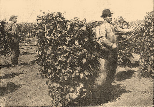 Illustration from Brockhaus and Efron Jewish Encyclopedia (1906—1913)